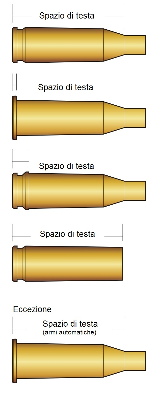 Italian translation of the file "Case headspace.jpg"